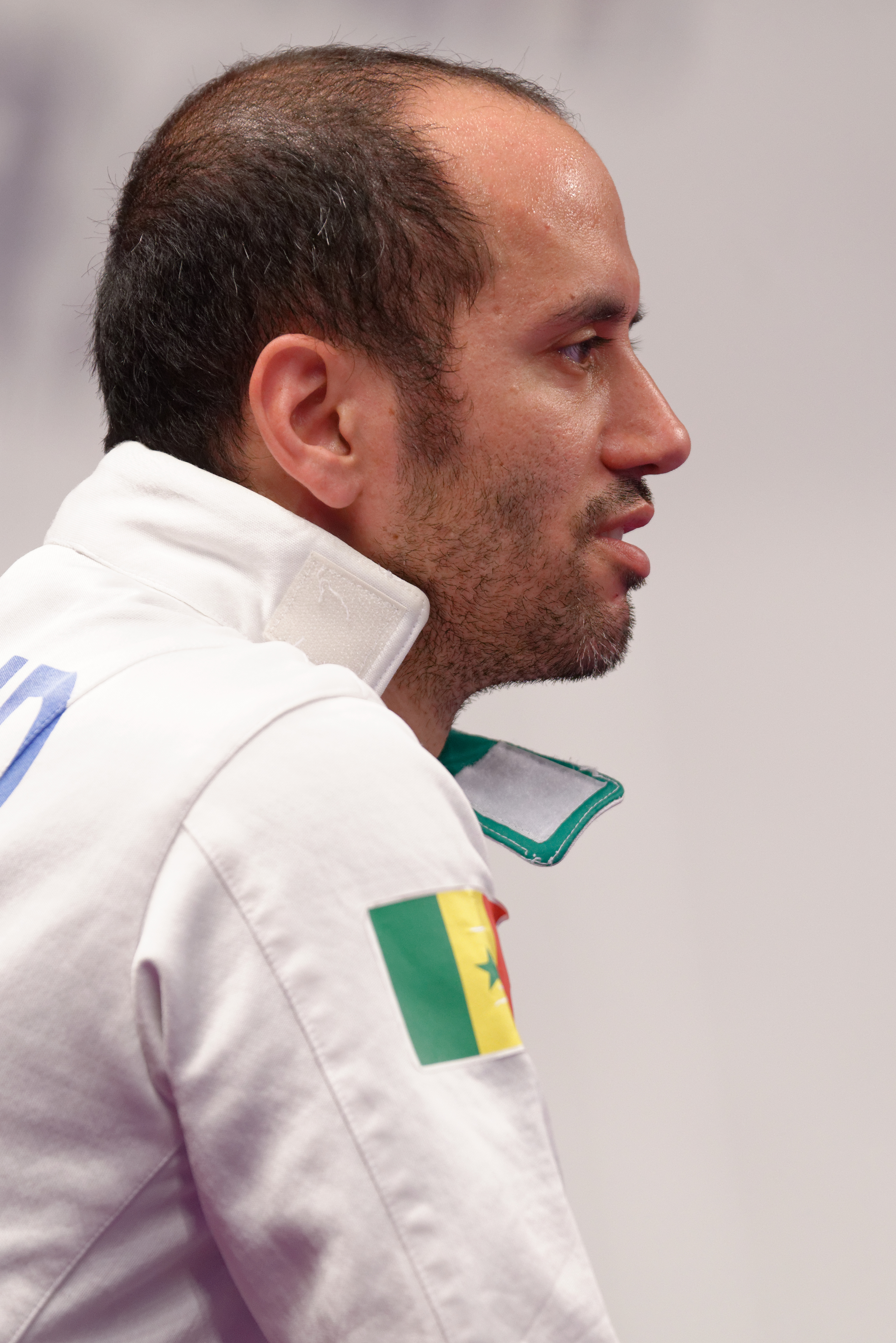 Senegal's Alexandre Bouzaid at the Challenge SNCF Réseau-Trophée Monal 2015, a stage of the men's épée World Cup.